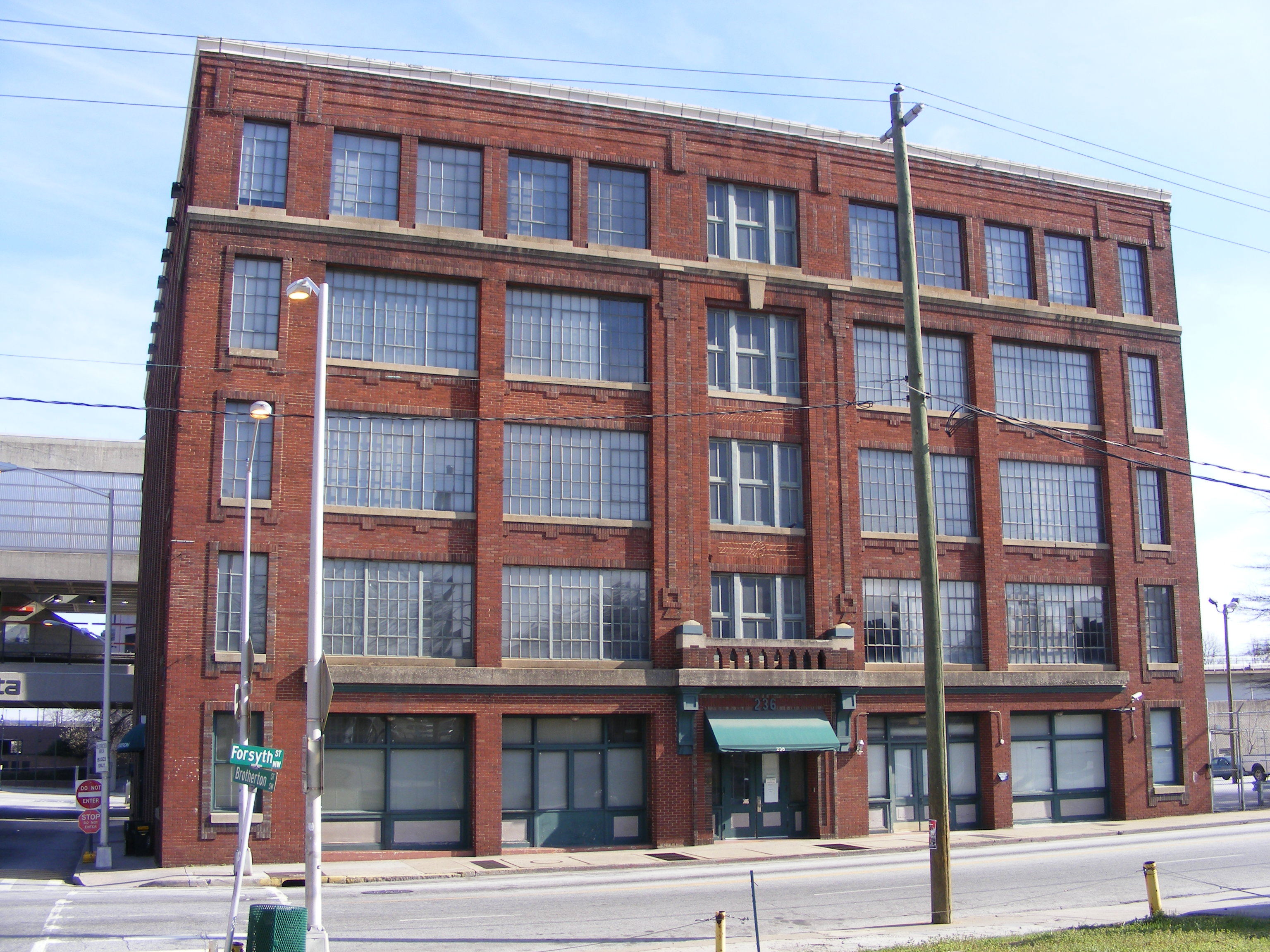 Garnett Station Place - 236 Forsyth St. SW - Formerly the Southern Belting Company Building